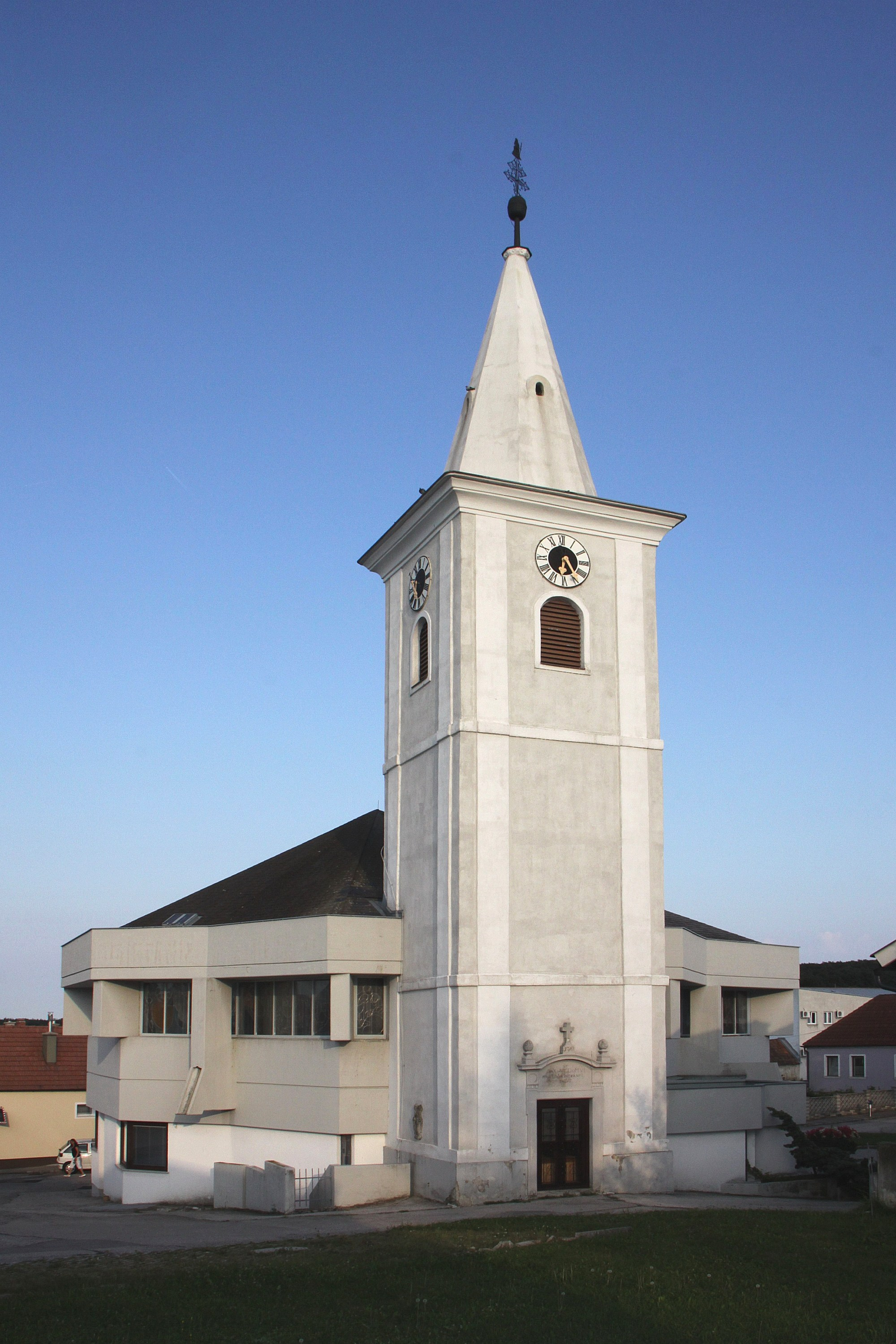 Parish church holy Jakob - Klingenbach. Object location47° 45′ 14.27″ N, 16° 32′ 21″ E